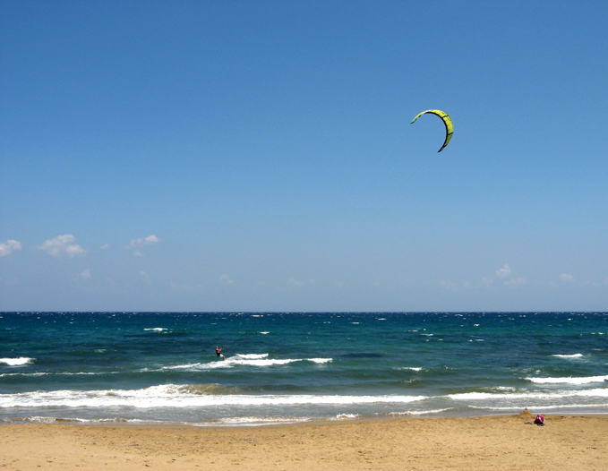 Kitesurfing in Georgioupolis, Crete